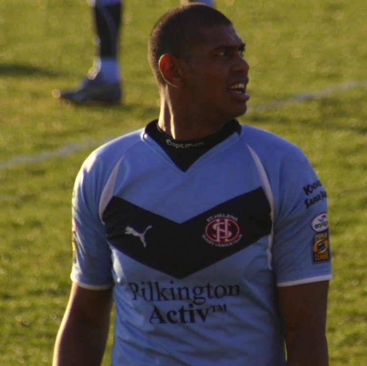 Leon Pryce